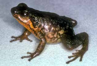 Female Anomaloglossus parkerae from La Escalera region, Venezuela. Paratype, KU 167328